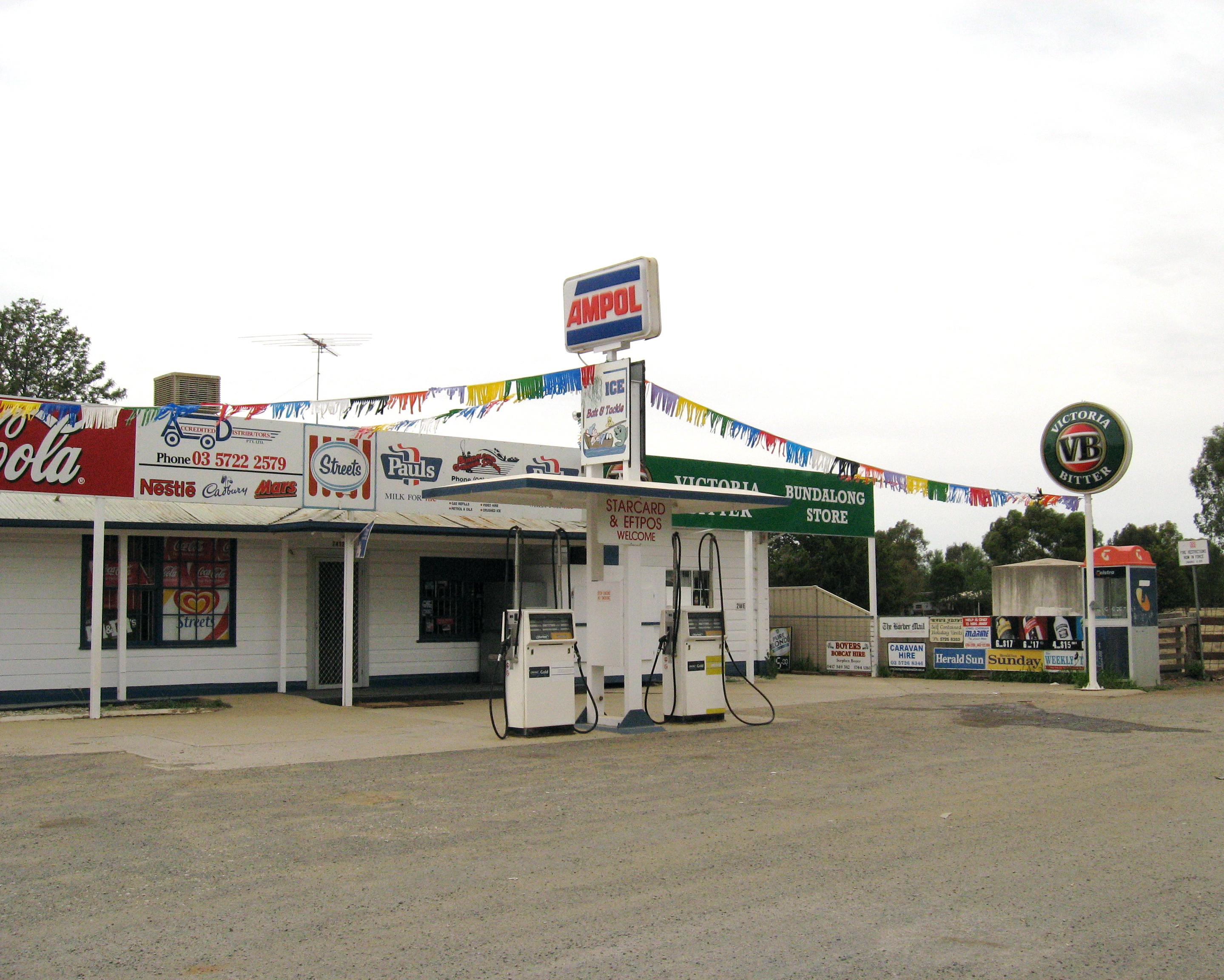 General Store, Bundalong, Australia